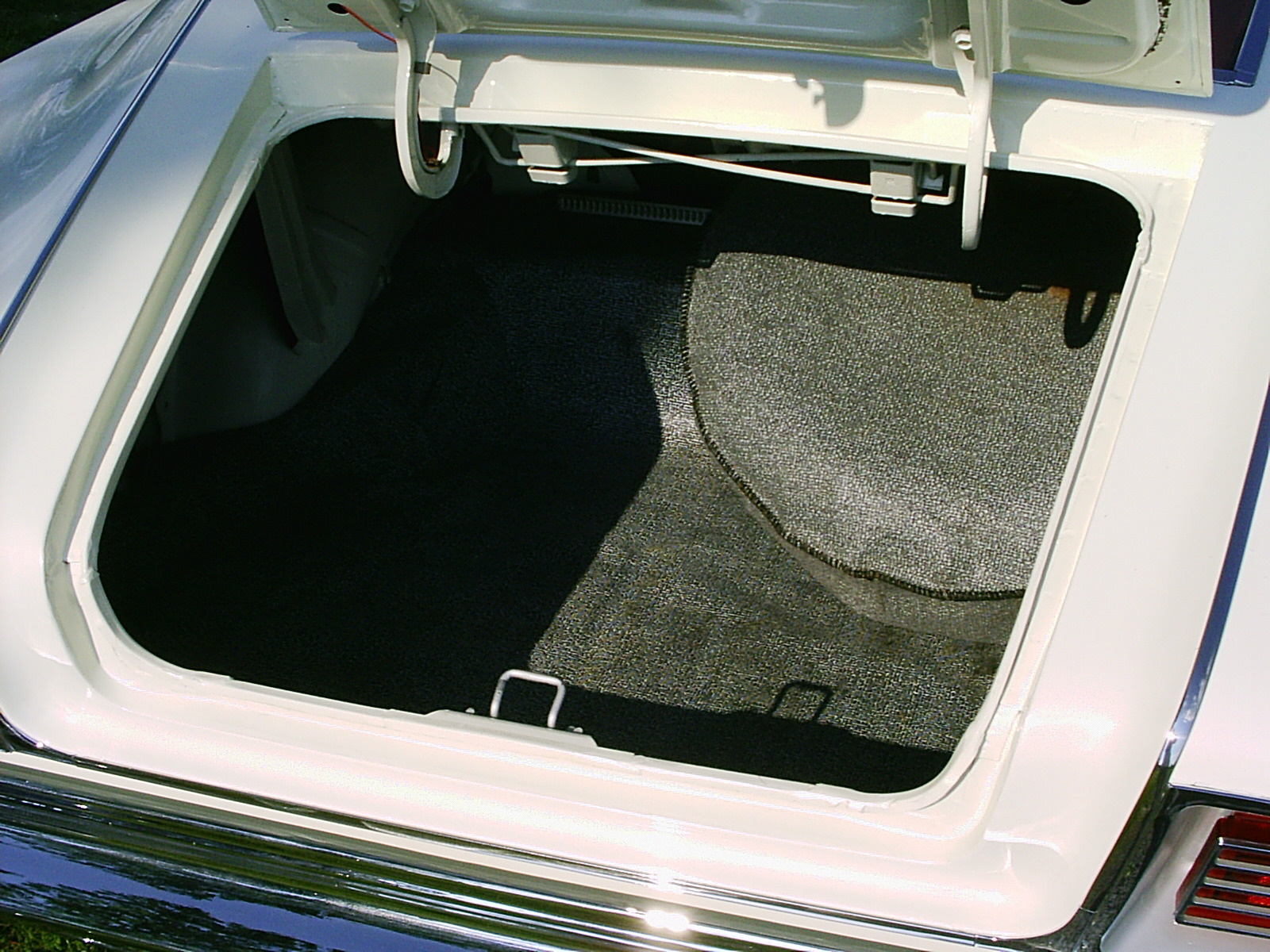 View of the trunk or luggage compartment of a 1967 AMC Marlin (built by American Motors Corporation) with decklid open.